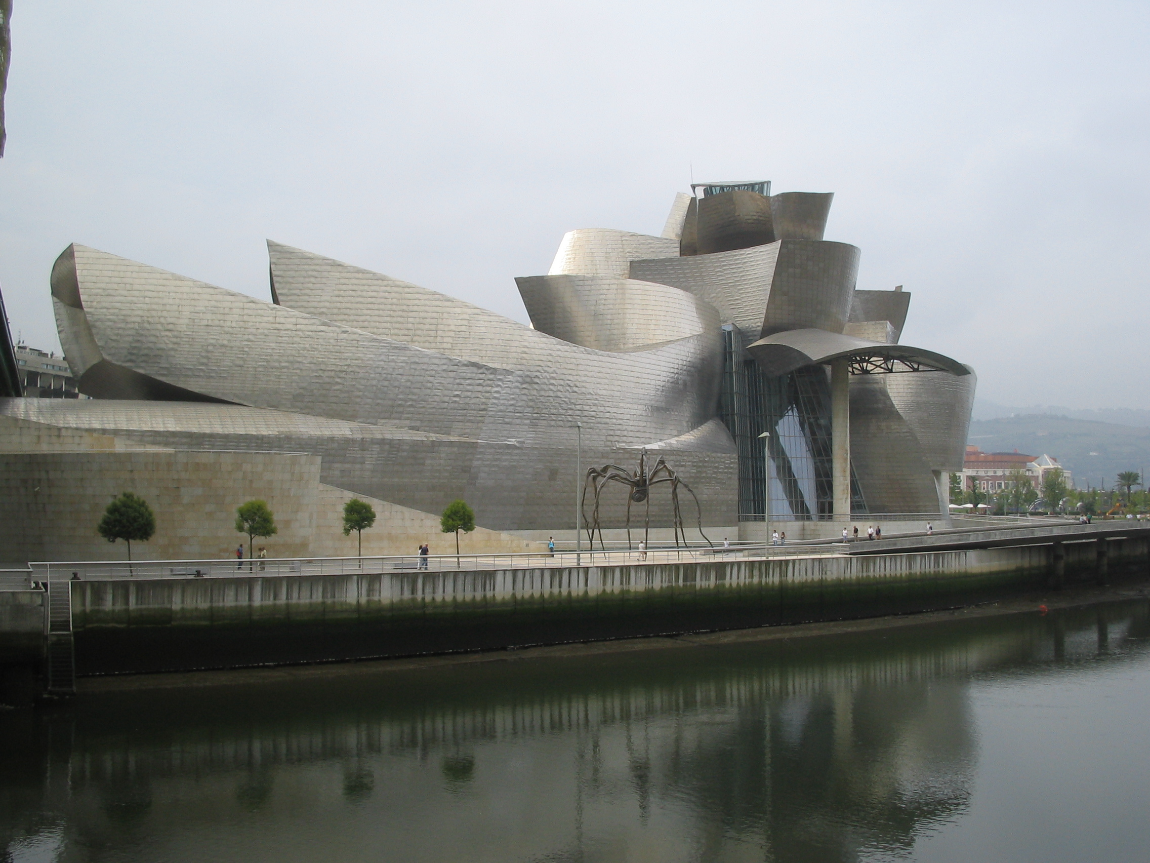 The architecture of this Guggenheim museum is by Frank Gehry. It's located in Bilbao, Spain.